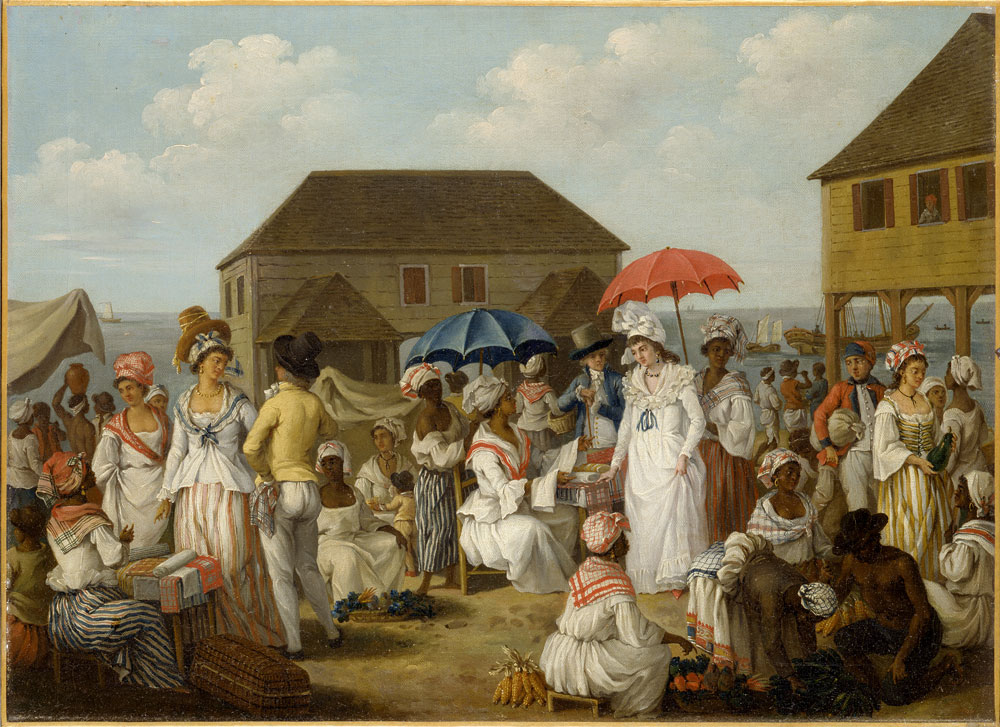 A Linen Market in Dominica in the 1770s depicting enslaved people, free 'people of color' and Europeans.